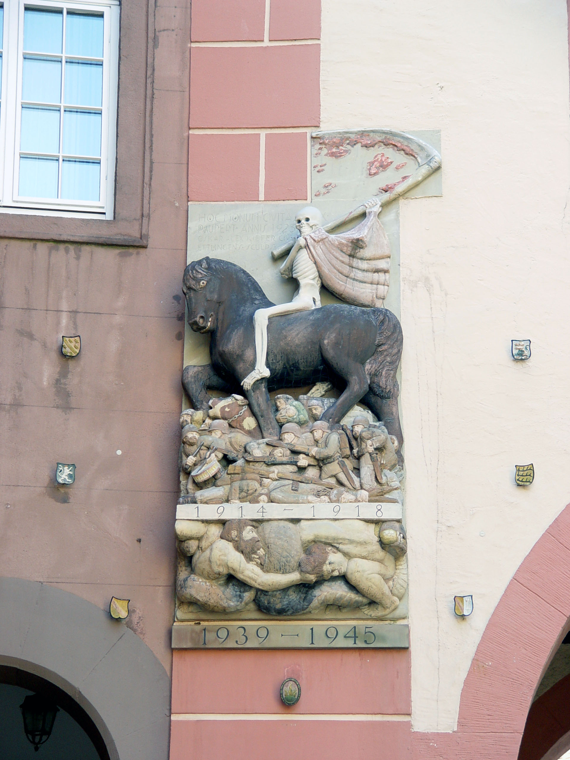 Death reaper (World War I Memorial in Ettlingen, Baden-Württemberg, Germany)